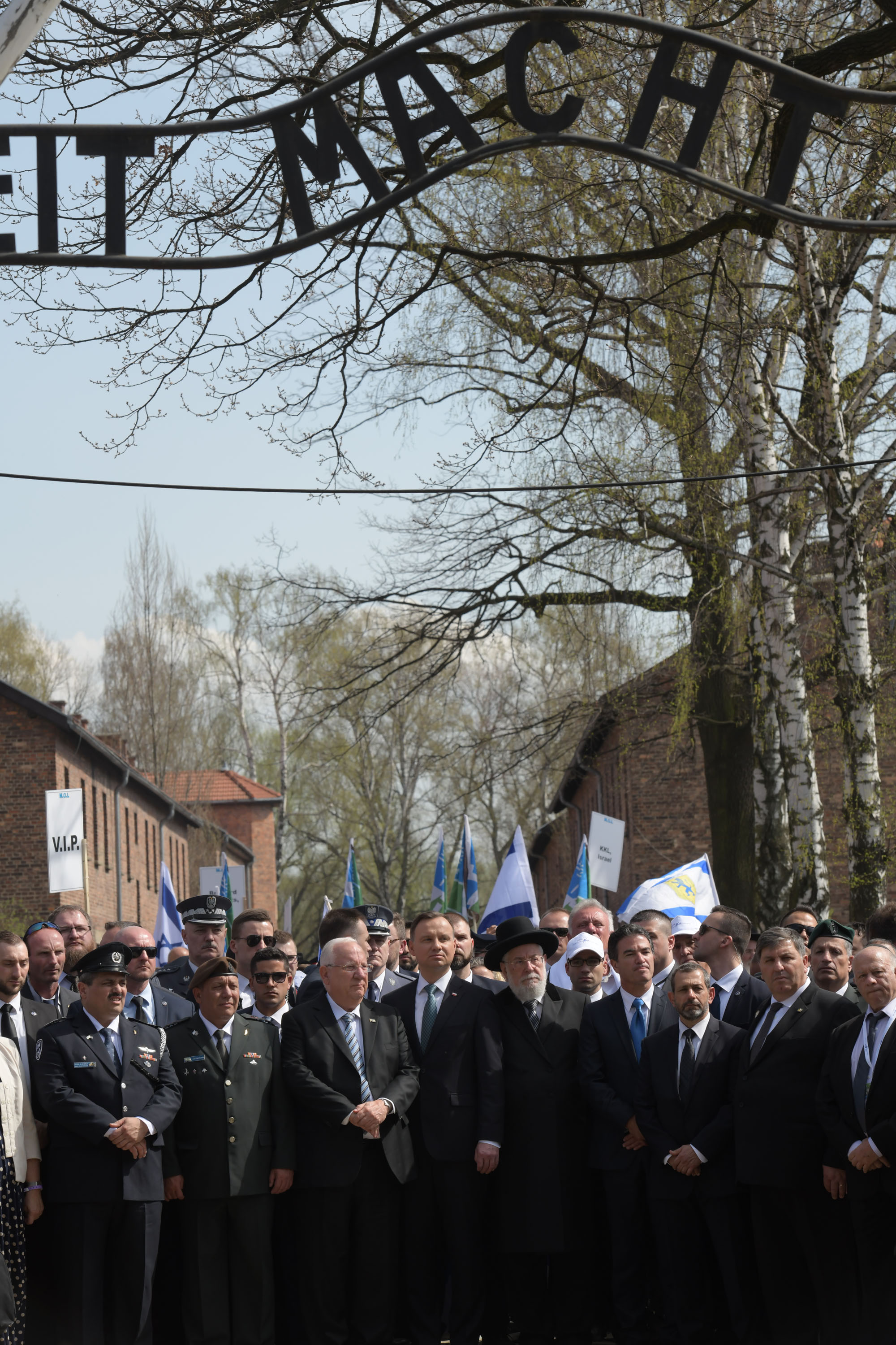 President of Israel, Reuven Rivlin, leads the March of the Living in Poland with the Chief of Staff, the Chief of Police, the head of the Mossad and the head of the Shin Bet security service on Thursday, April 12, 2018. Photo credit: Kobi Gideon GPO.